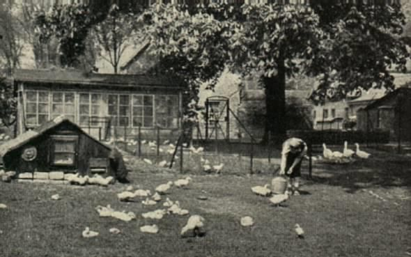 Reifensteiner Schule Weilbach Geflügelhof 1950